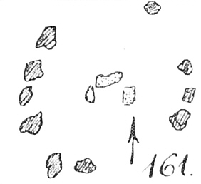 Outline of the dolmen Tangeln 1, Saxony-Anhalt